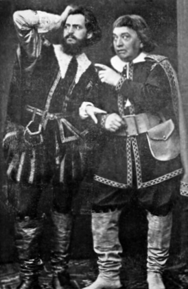 Fyodor Komissarzhevsky as Don Juan and Osip Petrov as Leporello in the premiere of The Stone Guest, Mariinsky Theatre (1872)